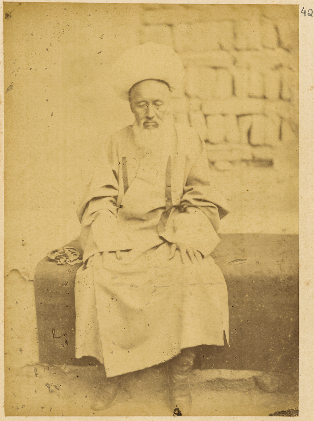 In 1874-75, the Russian government sent a research and trading mission to China to seek out new overland routes to the Chinese market, report on prospects for increased commerce and locations for consulates and factories, and gather information about the Dungan Revolt then raging in parts of western China. Led by Lieutenant Colonel Iulian A. Sosnovskii of the army General Staff, the nine-man mission included a topographer, Captain Matusovskii; a scientific officer, Dr. Pavel Iakovlevich Piasetskii; Chinese and Russian interpreters; three non-commissioned Cossack soldiers; and the mission photographer, Adolf Erazmovich Boiarskii. The mission proceeded from Saint Petersburg to Shanghai via Ulan Bator (Mongolia), Beijing, and Tianjin, and then followed a route along the Yangtze River, along the Great Silk Road through the Hami oasis, to Lake Zaysan, back to Russia. Boiarskii took some 200 photographs, which constitute a unique resource for the study of China in this period. Most of the photographs are included in this album, which later became part of the Thereza Christina Maria Collection assembled by Emperor Pedro II of Brazil and given by him to the National Library of Brazil. Chinese; Memory of the World; Portrait photographs; Religious leaders